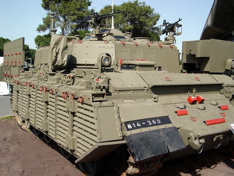 Nakpadon APC on LIC 2004 event